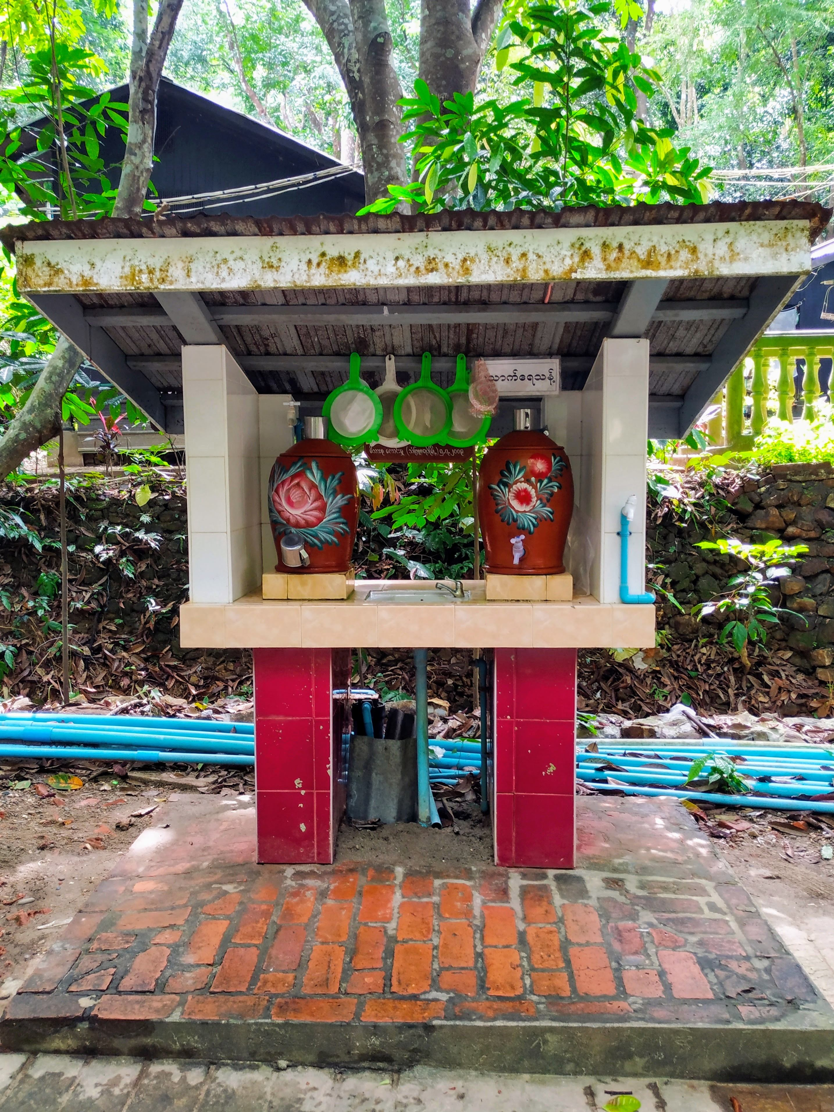 Myanmar Public Cool Drinking Water Pots Stand, Pa-Auk Forest Monastery မြန်မာဘာသာ: မြန်မာ သောက်ရေချမ်းစင်၊ ဖားအောက်တောရ